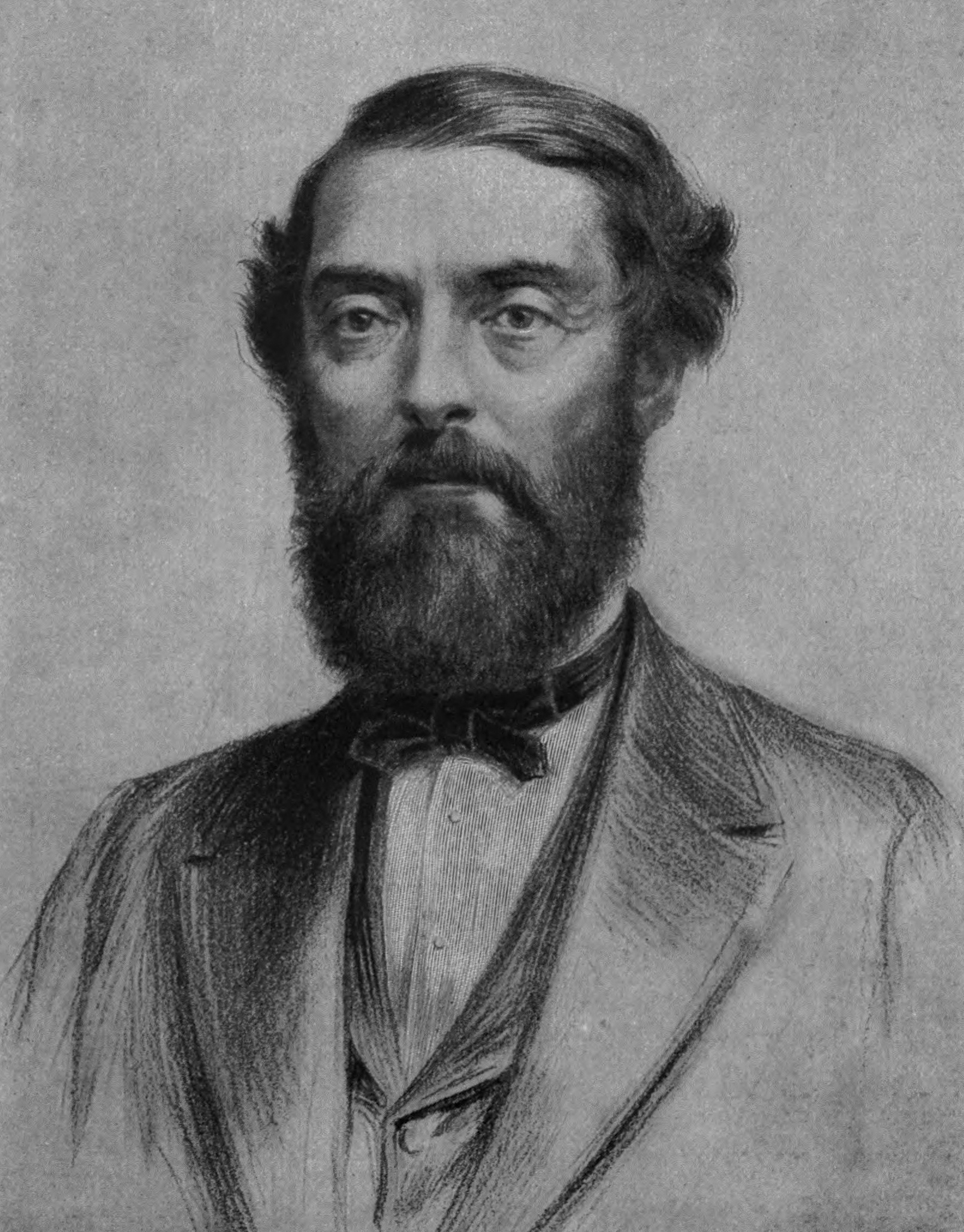 Photograpy of Edwin L. Drake (1819-1880)